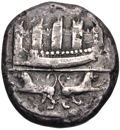 PHOENICIA, Sidon. temp. Ba`alšillem (Sakton) I-Ba’ana. Circa 425-401 BC. Electrotype “Double Shekel” (27mm, 18.67 g, 12h). Unsigned British Museum electrotype by Robert Ready or his sons. Phoenician galley left before city wall with four towers; two lions standing outward in exergue / Persian king and driver in chariot drawn by two horses. Head, Guide, Period III.A., 56. As made.